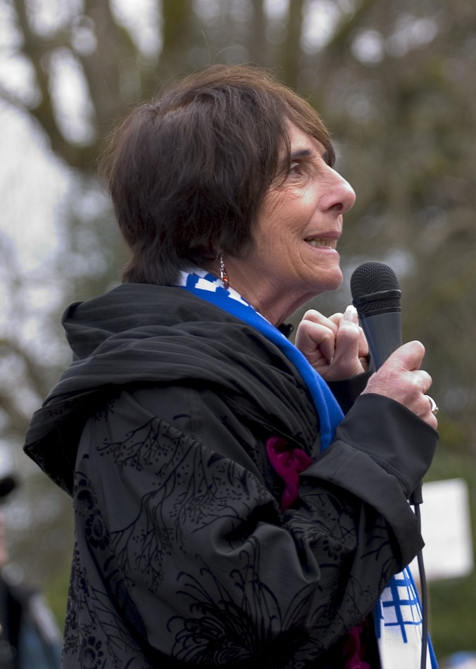 Washington State Senator Rosemary McAuliffe